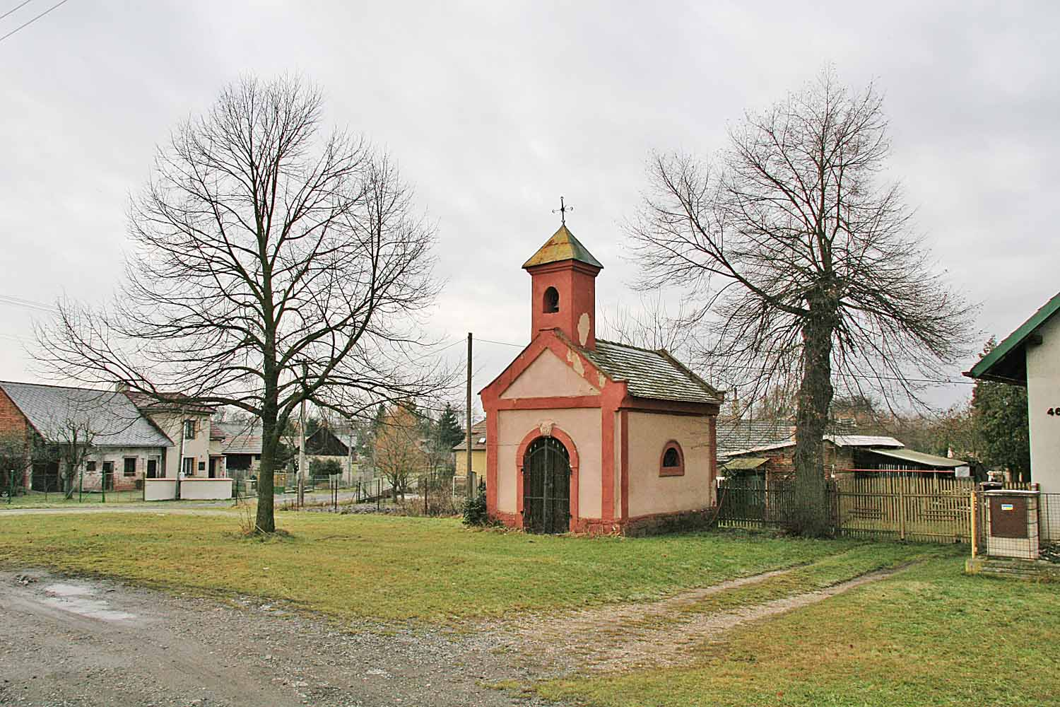 Chapel in Kunčice, Hradec Králové District, Czech Republic